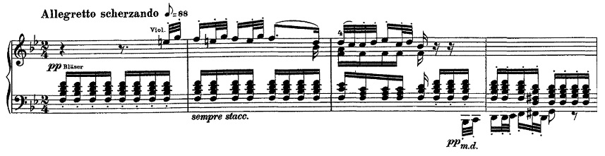 The theme and "metronome" rhythm of the 2nd movement of Ludwig van Beethoven's Symphony No. 8 in F major, Op. 93 (1812), transcribed for piano by Franz Liszt.